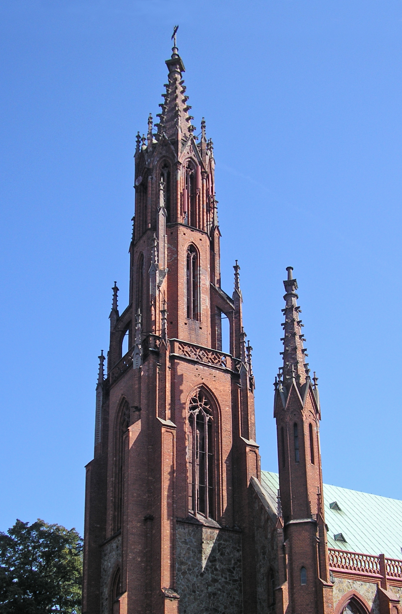 Holy Trinity church in Lubań, Poland.